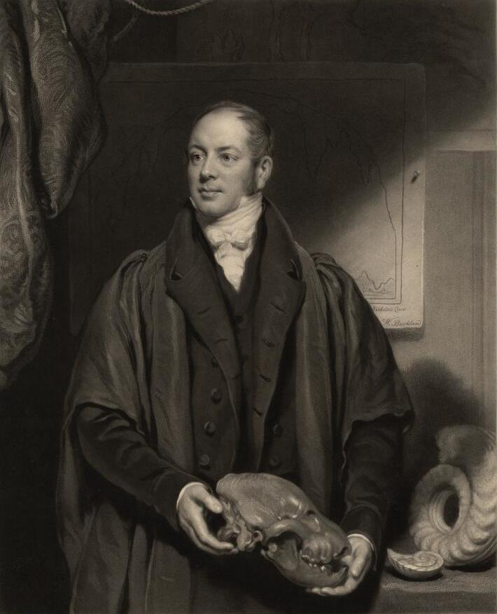 A portrait from the Welsh Portrait Collection at the National Library of Wales. Depicted person: William Buckland – English clergyman, geologist and palaeontologist